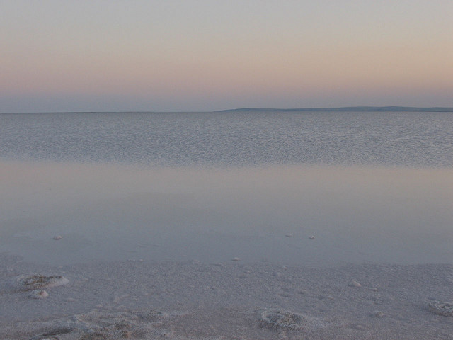 A view of Lake Tuz (The Salt Lake) from the shore just before sunset.